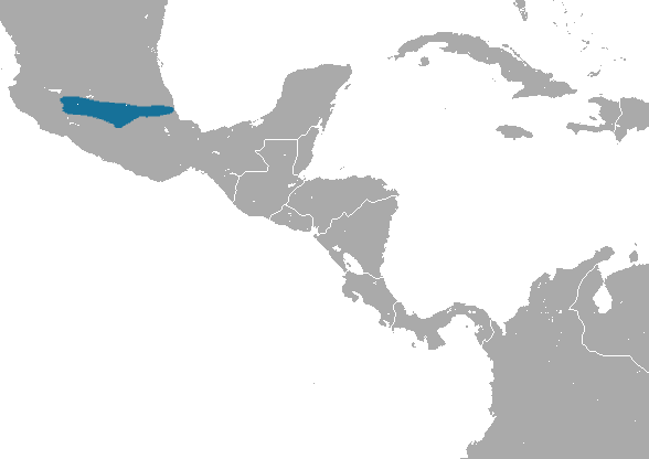 Orizaba Long-tailed Shrew (Sorex orizabae) range